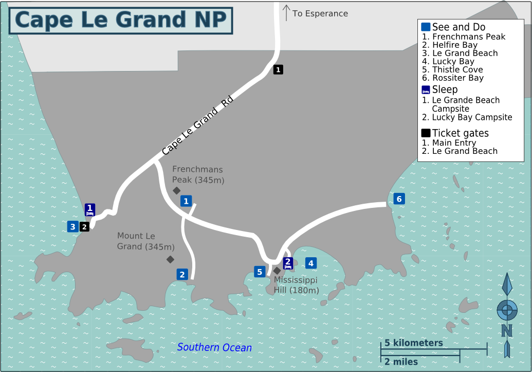 Map of the National park, Cape Le Grande.